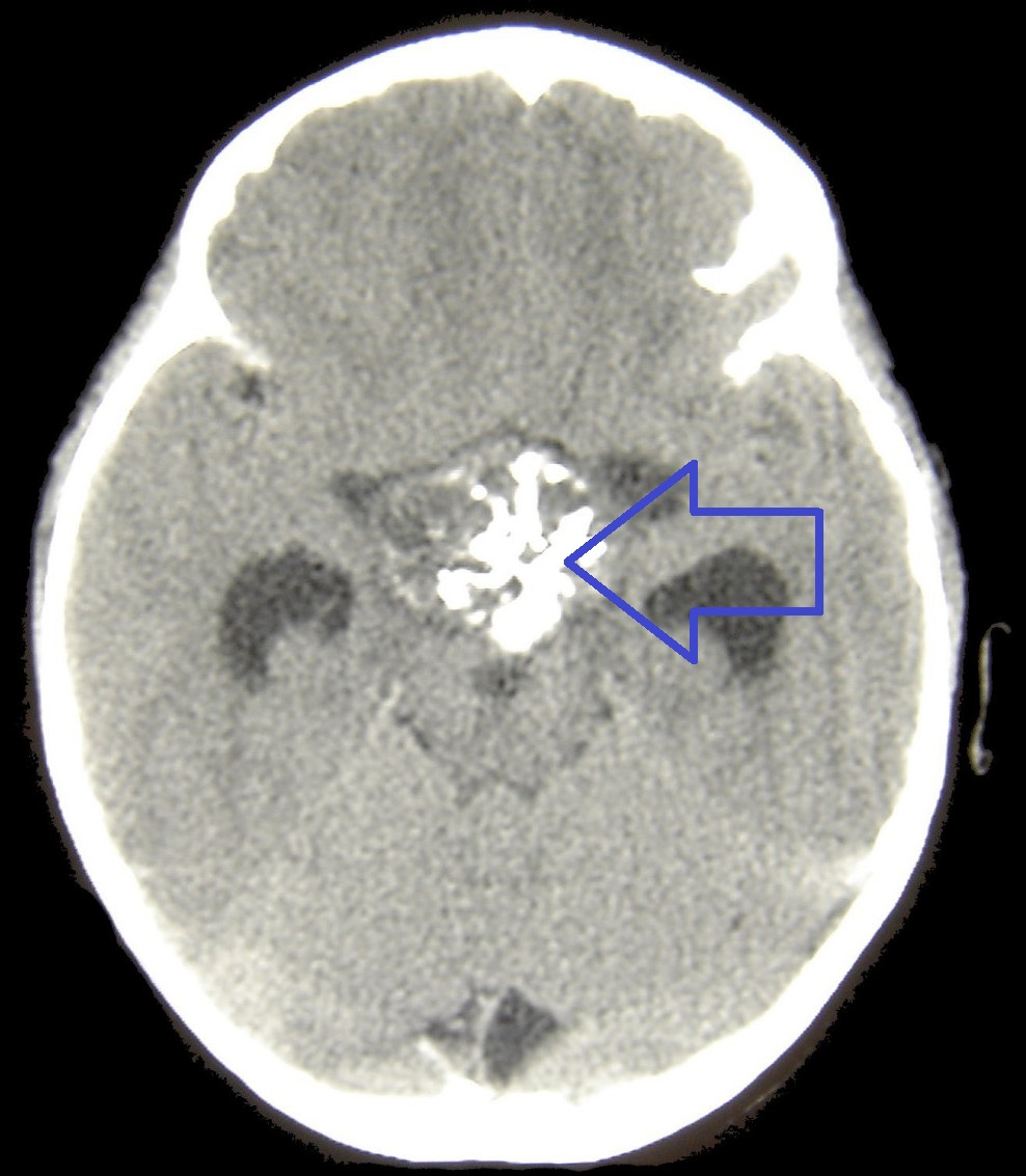 CT of a craniopharyngioma. This unenhanced CT shows a calcified cystic structure in the supra sellar region, together with hydrocephalus